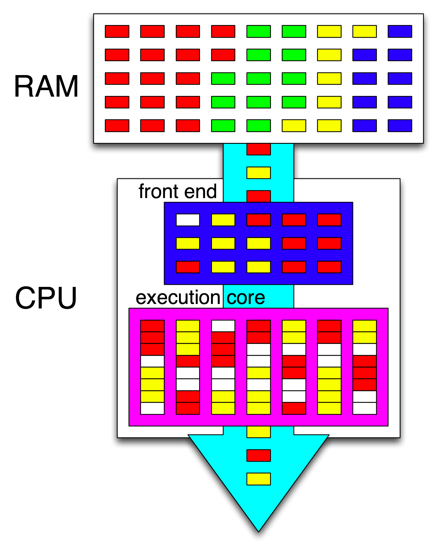 Hyper-threaded CPU (see this article for more details)